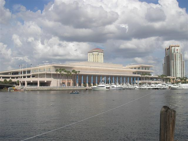 Tampa Convention Center, taken across the tip of Tampa Bay from the foot of Bayshore Boulevard